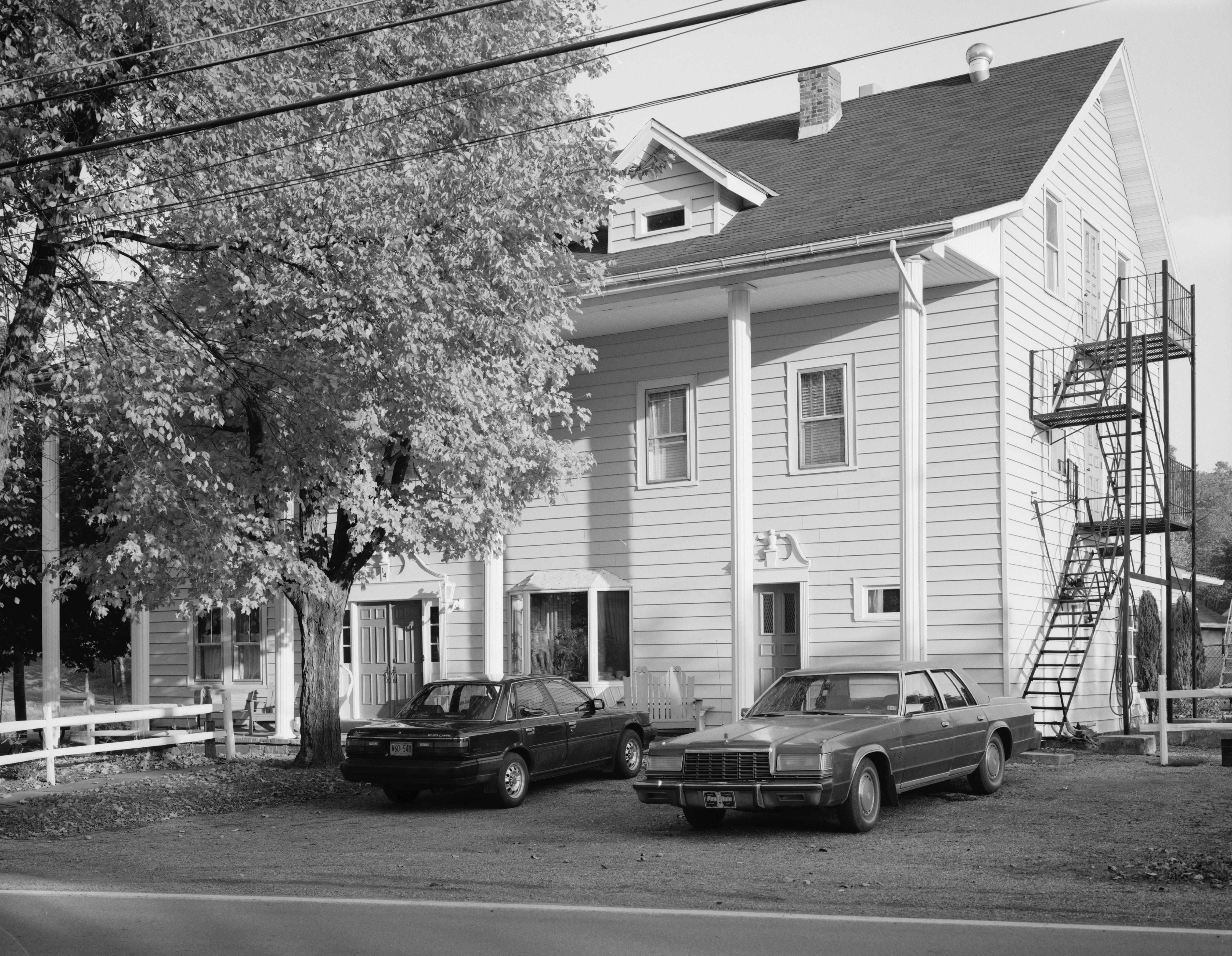 Front of the Robertsdale Hotel, located at 14 S. Main Street in Robertsdale, an unincorporated community in Wood Township, Huntingdon County, Pennsylvania, United States. Built in 1912, the hotel is part of the Robertsdale Historic District, a historic district that is listed on the National Register of Historic Places.